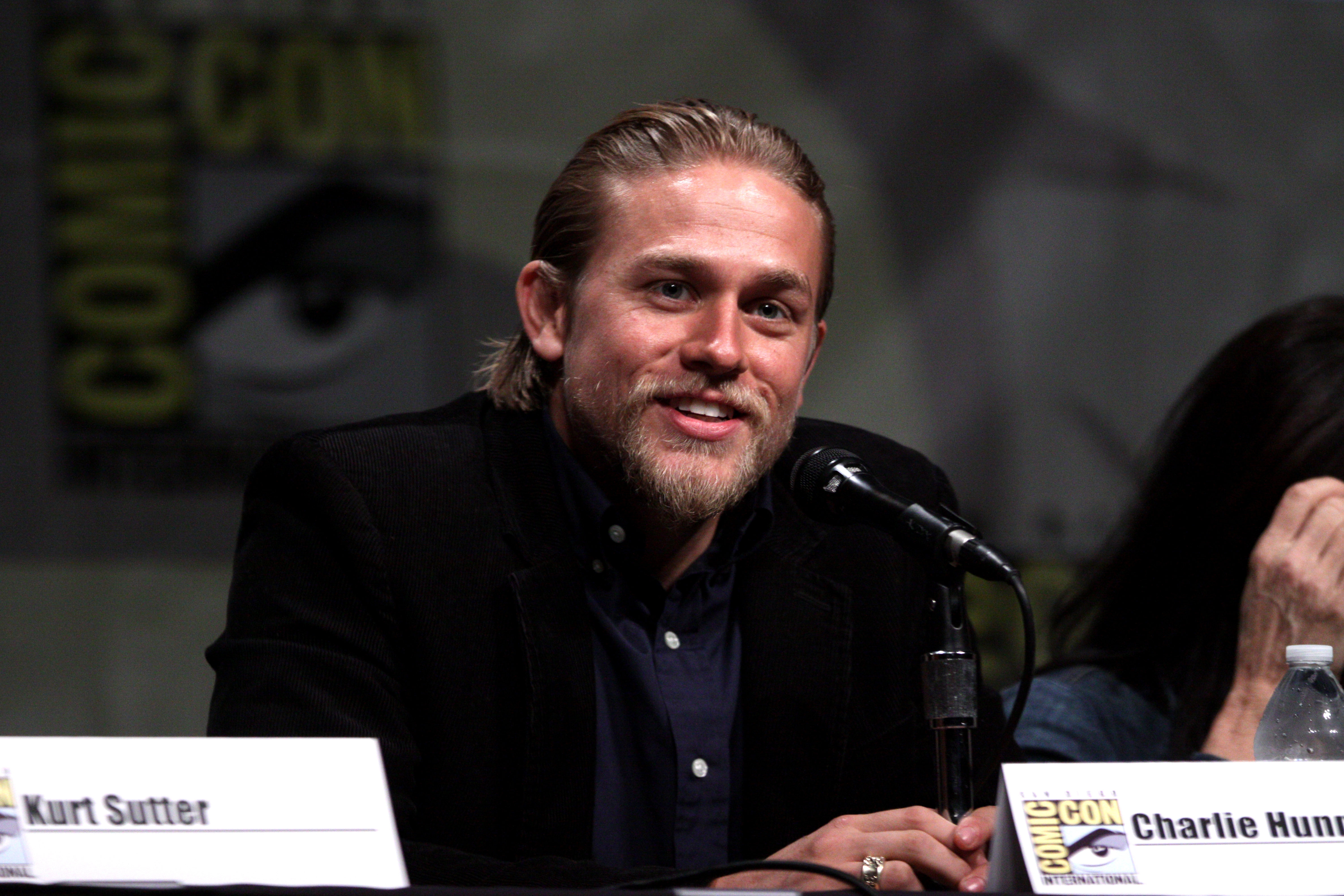 Charlie Hunnam speaking at the 2012 San Diego Comic-Con International in San Diego, California.